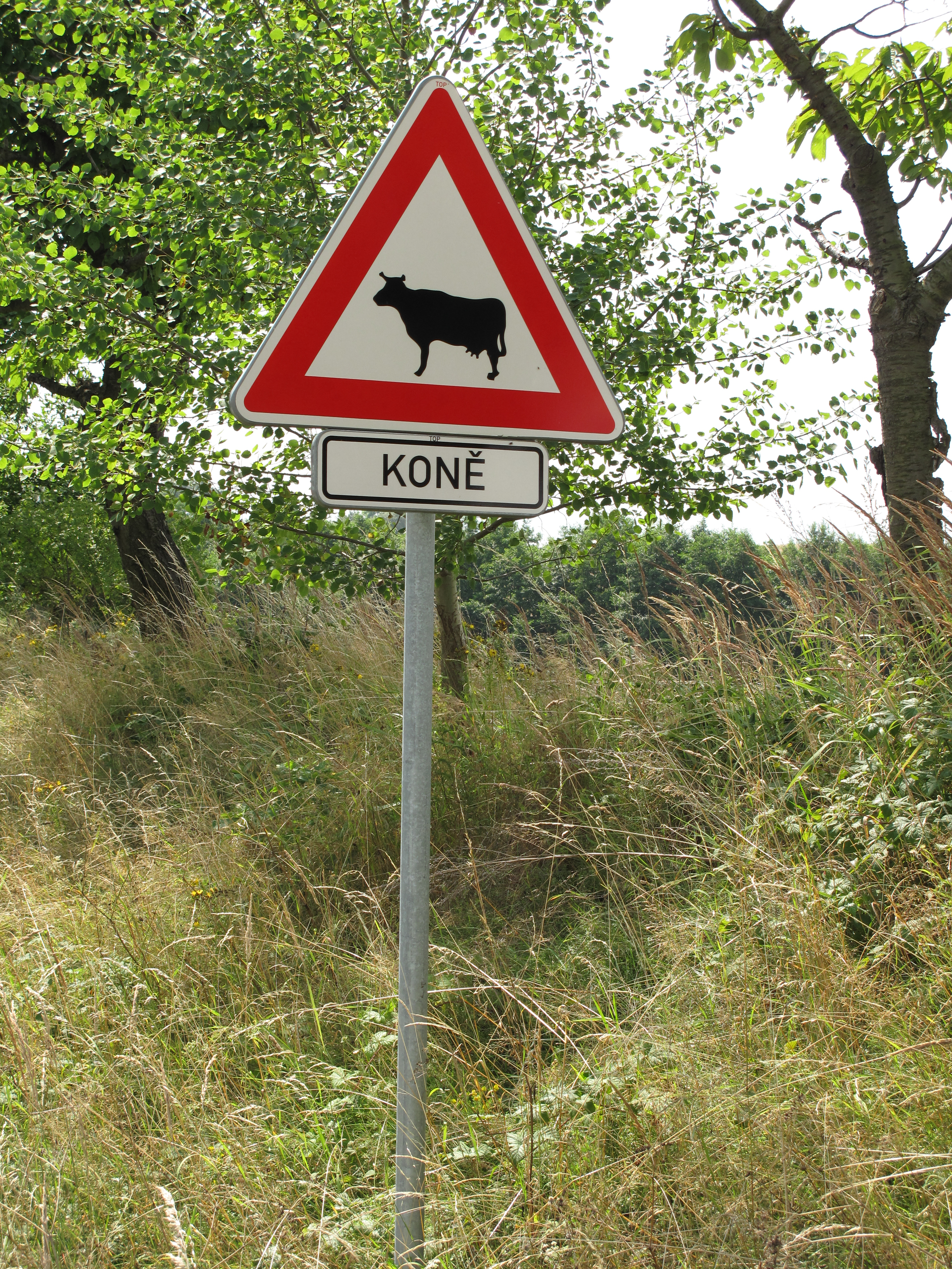 Warning sing Animals with inscription KONĚ (HORSES), near Střížkov village Benešov District, Czech Republic.